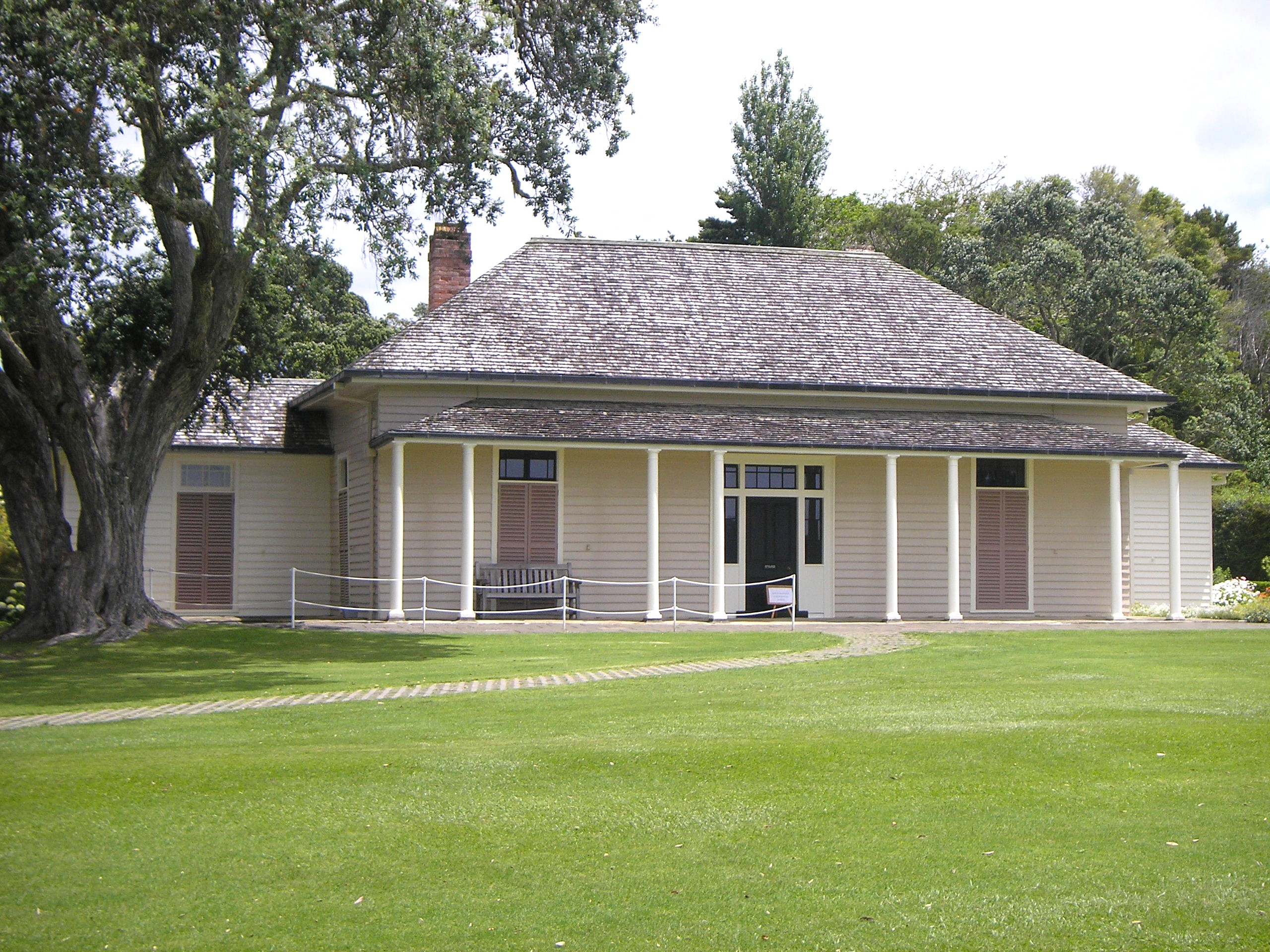 Treaty House, Waitangi, taken by author 2006 NZHPT Category I; registration number 6.